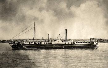 Rasetzky Steamship (1851)